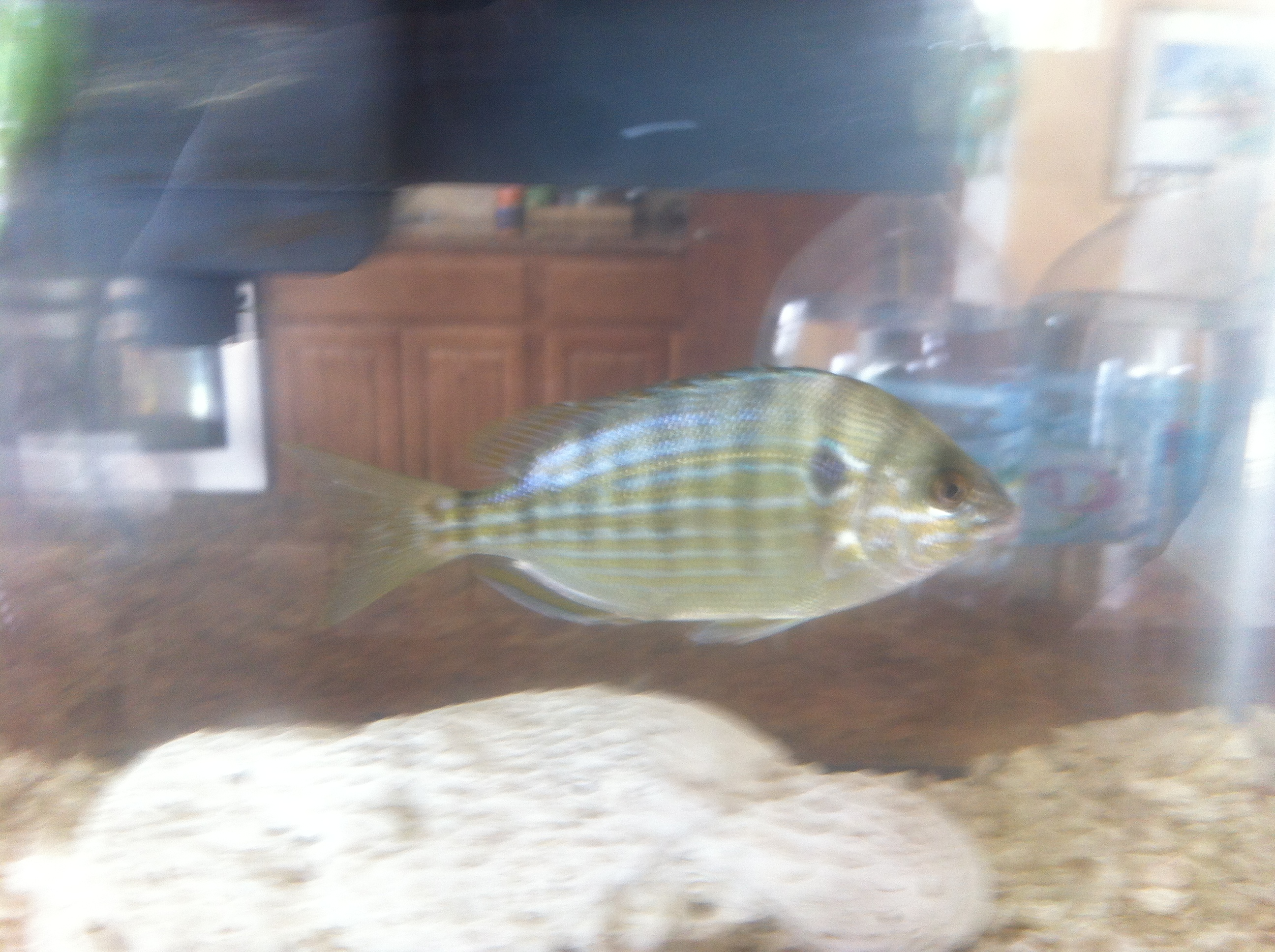 Photo of a live pinfish, Lagodon rhomboides